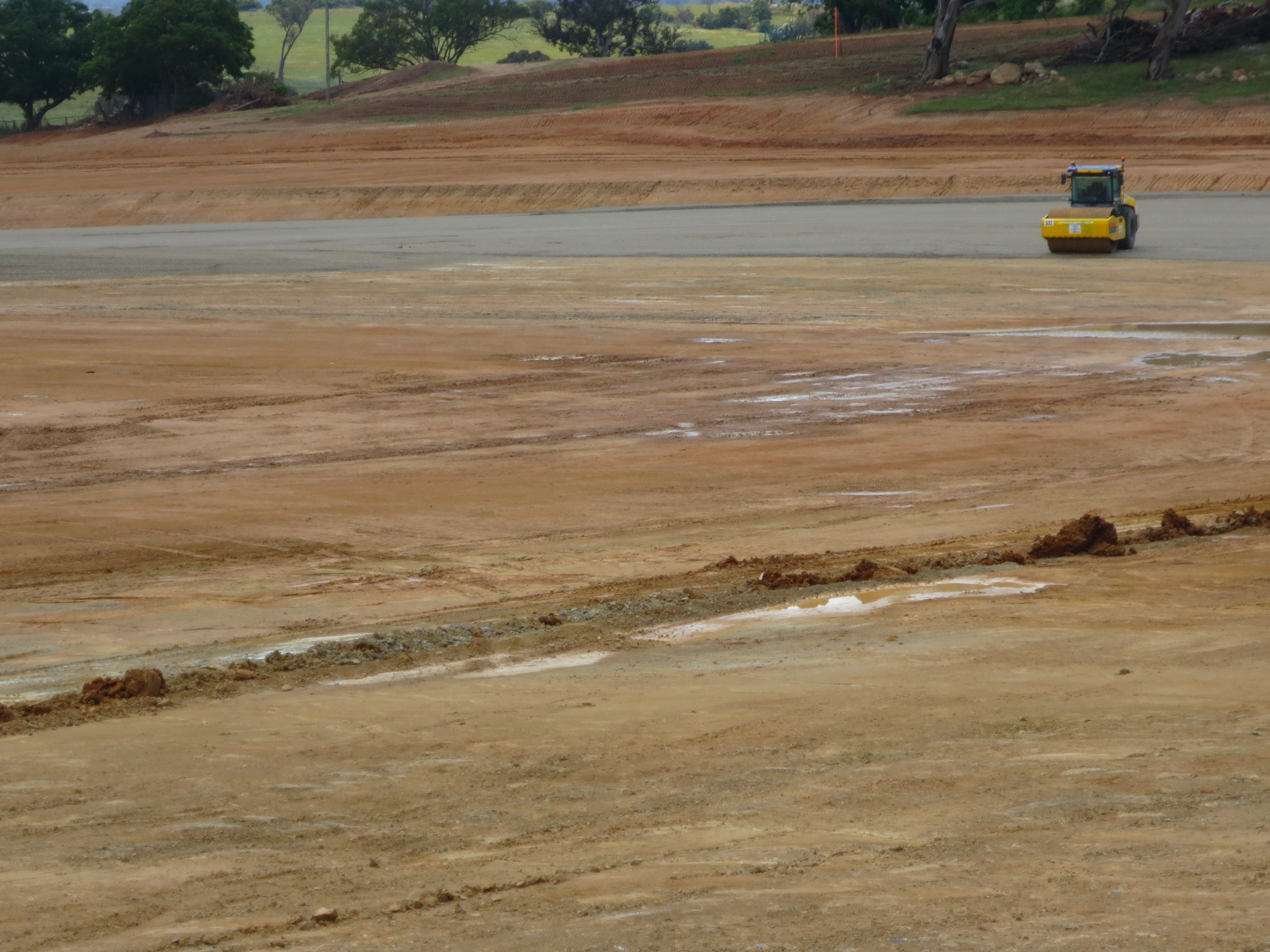 Cleared construction site. Buildings will be built here next.